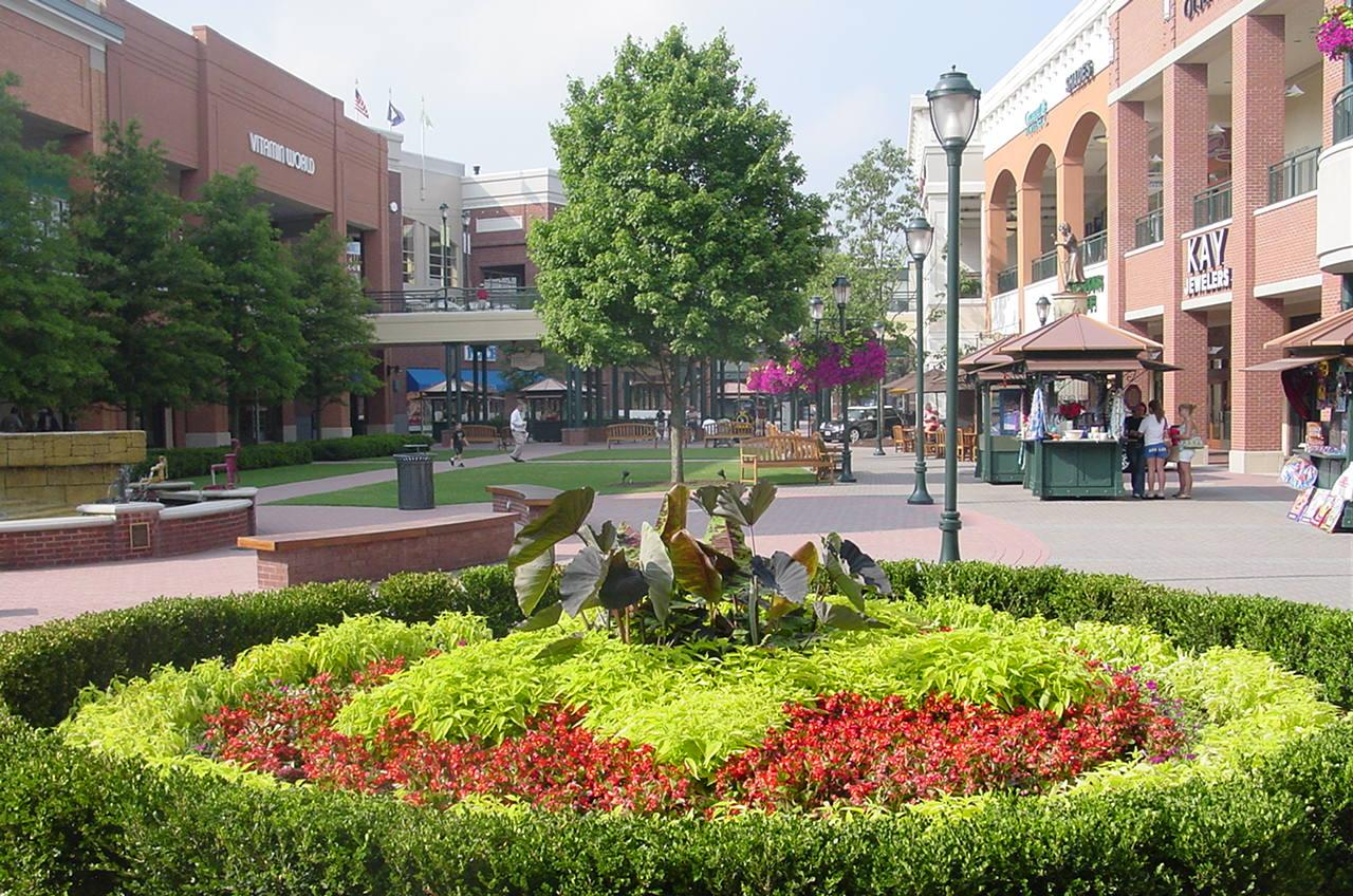 Scene from center of shopping mall